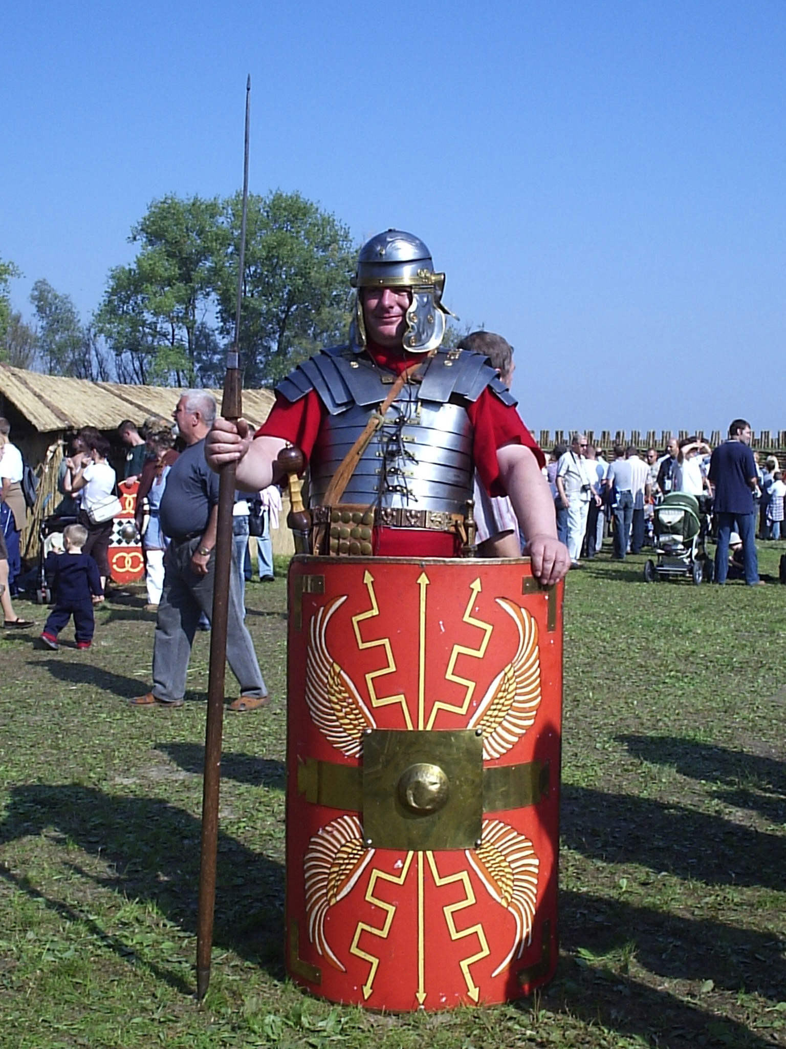 Roman soldier - Legio XIIII GMV, Biskupin, Poland